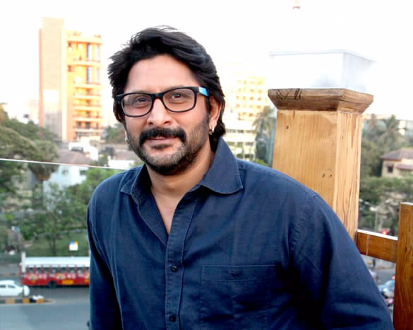 Arsha Warsi at Success bash of 'Jolly L.L.B.' at Escobar